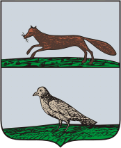 Birsk (Bashkortostan), coat of arms (1782)